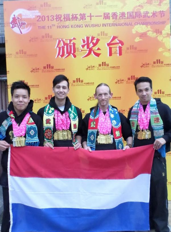 Kung Fu World Championship Team Holland, Choy Li Fut / Tai chi. 2013. 23 gold medals. 蔡 李 佛 - from left to right: Yu Dai Fu, Chi King Tang, Mark Horton, Lucas van Scheppingen (Laidback Luke)